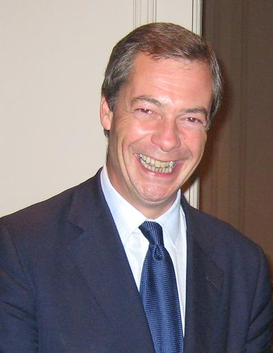 Nigel Farage at a conference in the Grosvenor House hotel in London.